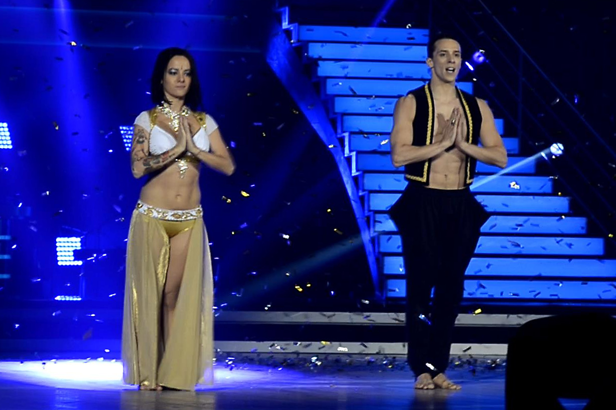 Alizée & Grégoire Lyonnet performing "Bollywood" (Bharata Natyam) dance in Lyon for Danse avec les stars Tour